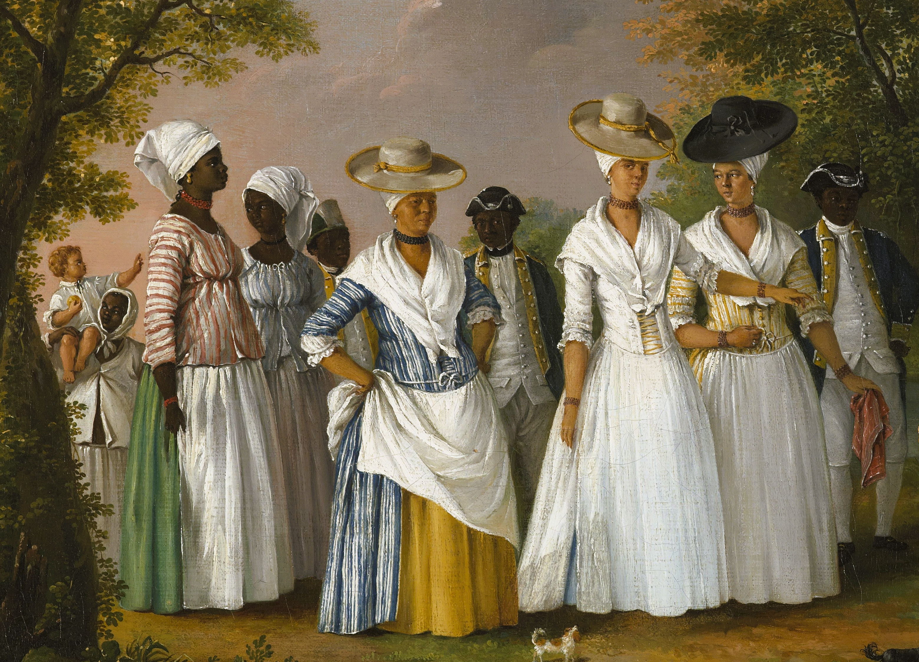 detail: the human figures, both foreground and background (center)